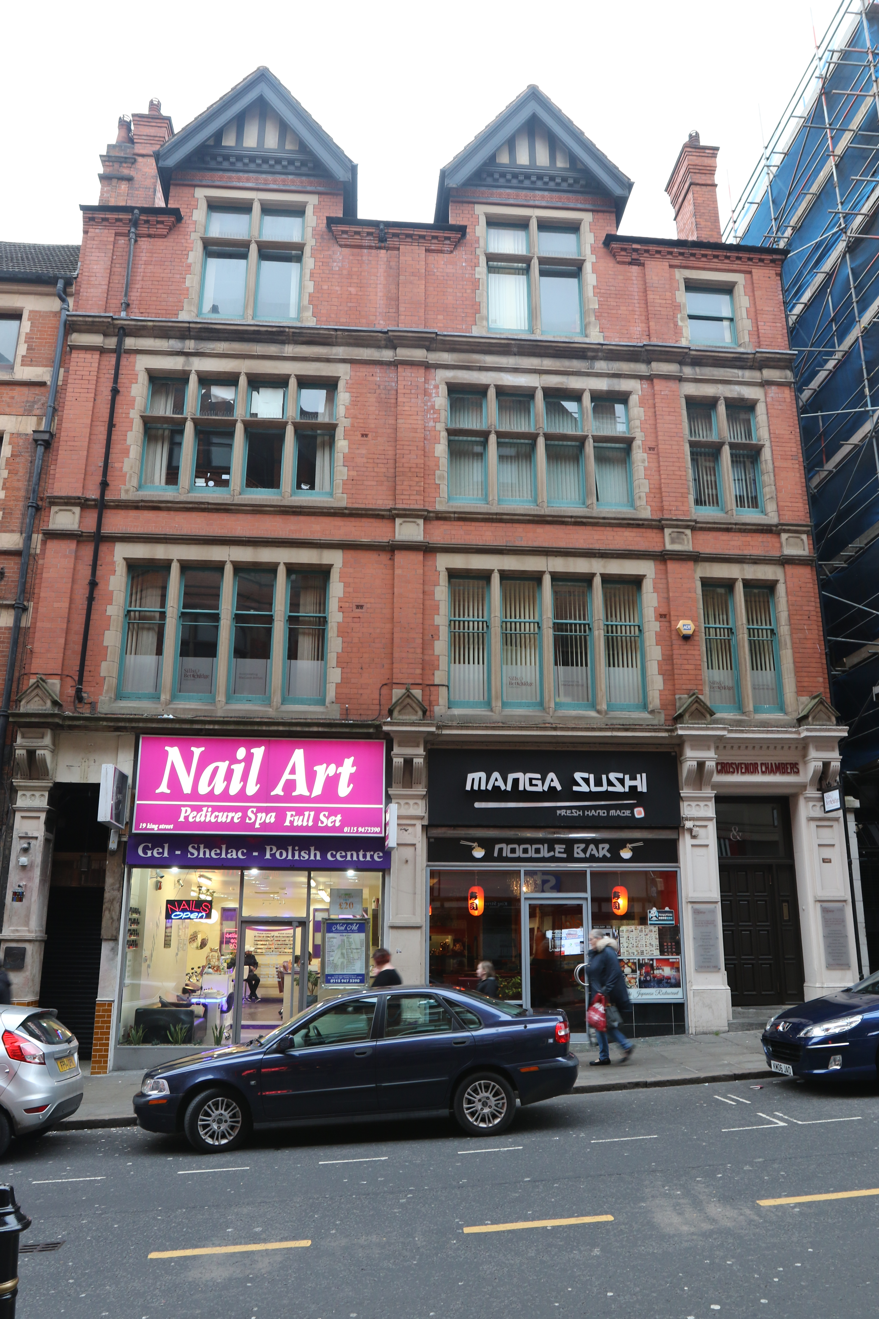 Grosvenor Buildings on King Street, by Frederick Ball & John Lamb 1896.